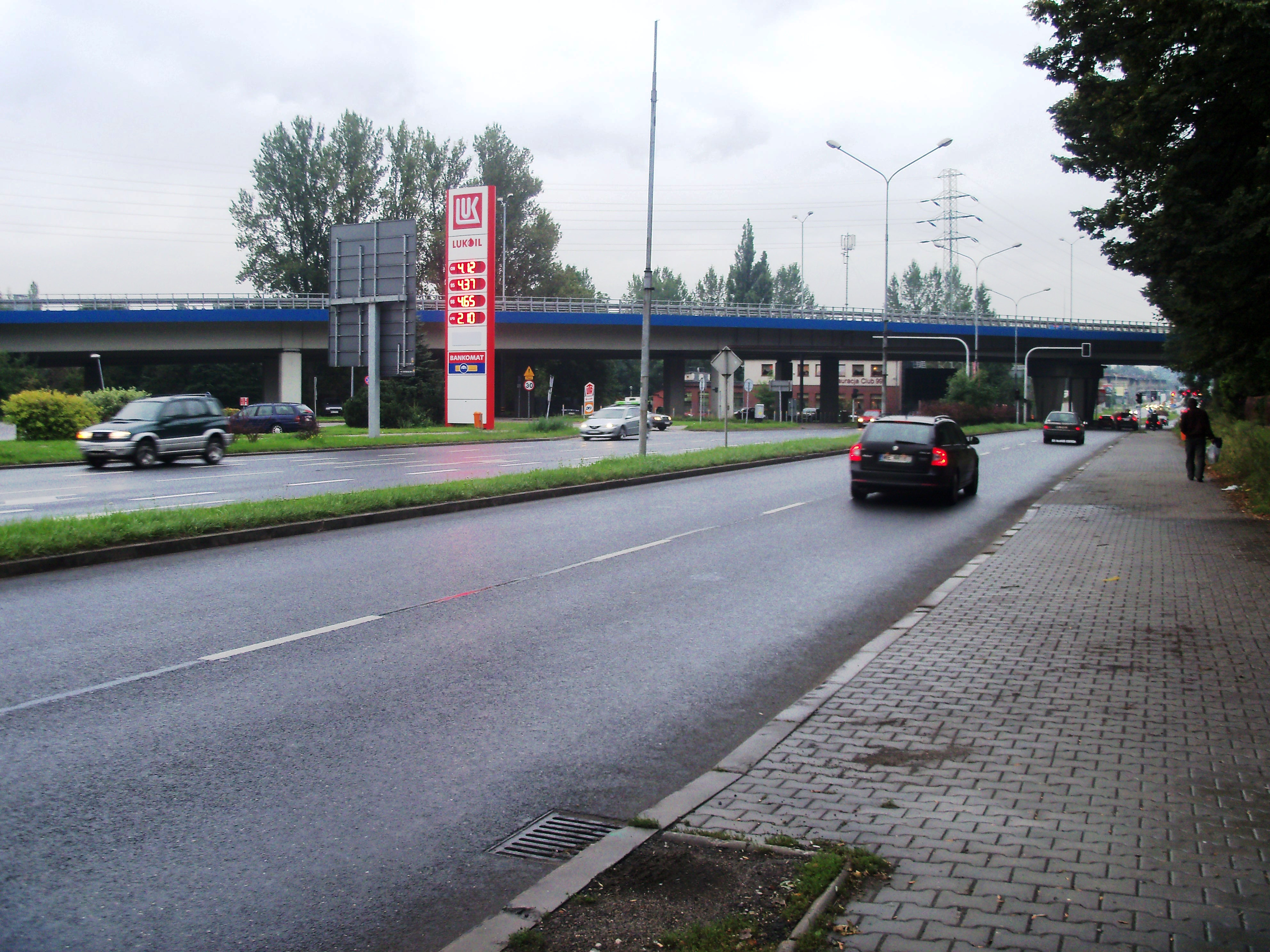 Bracka Street in Katowice